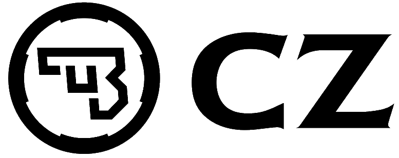 New logo represents CZUB company